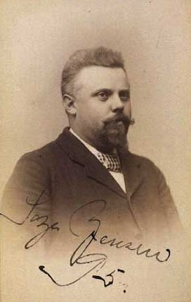 Carl Martin Soya-Jensen (1860-1912), Danish painter